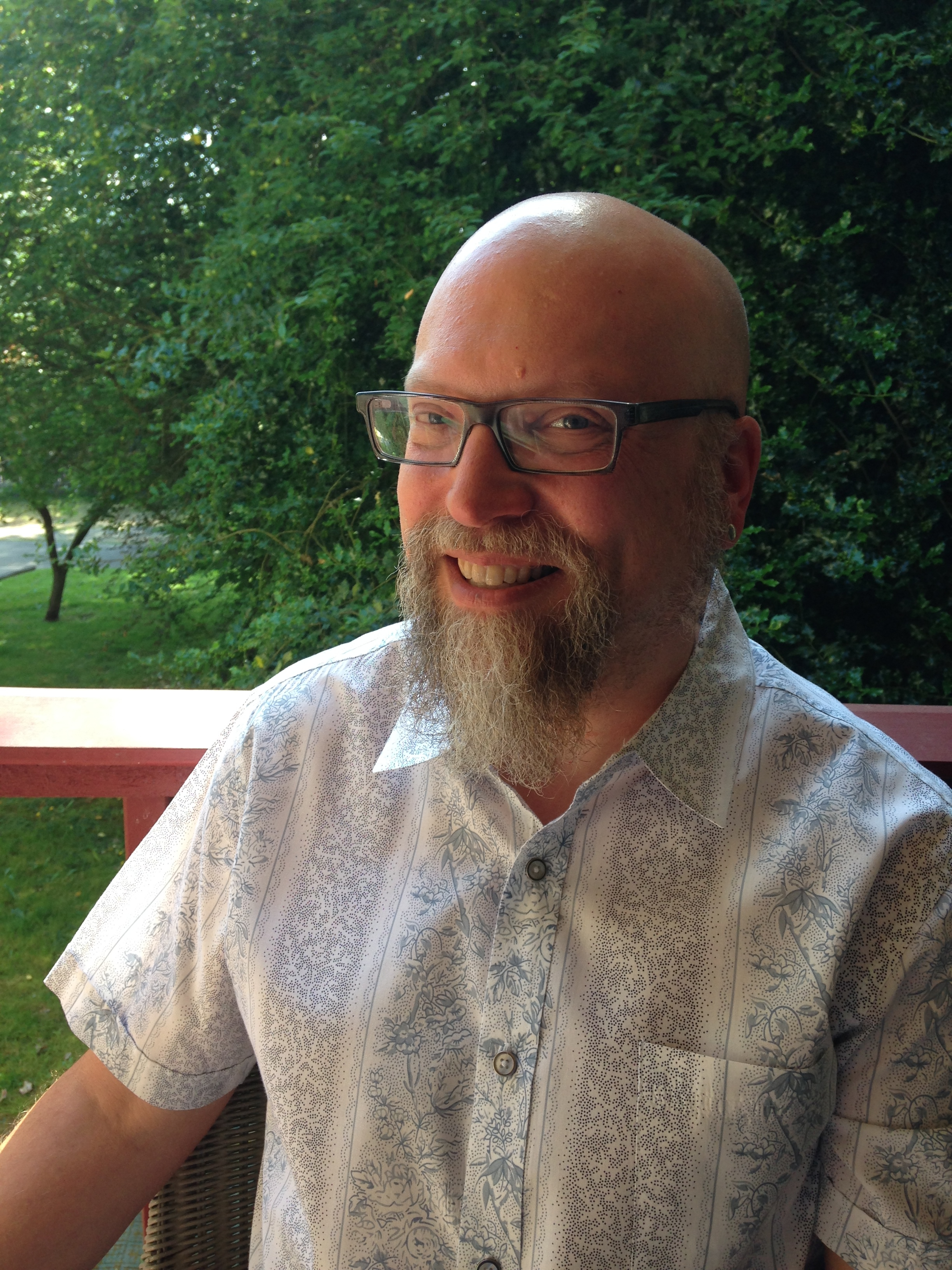 Game designer and children's book author Jonathan Tweet at his home in Seattle, Washington, USA.